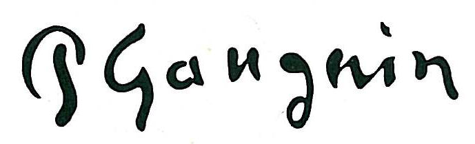 autograph of the painter Paul Gauguin